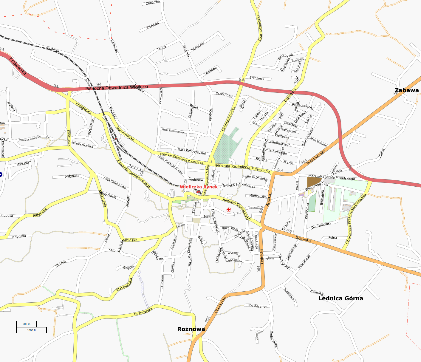 Conceptual map of Wieliczka city.